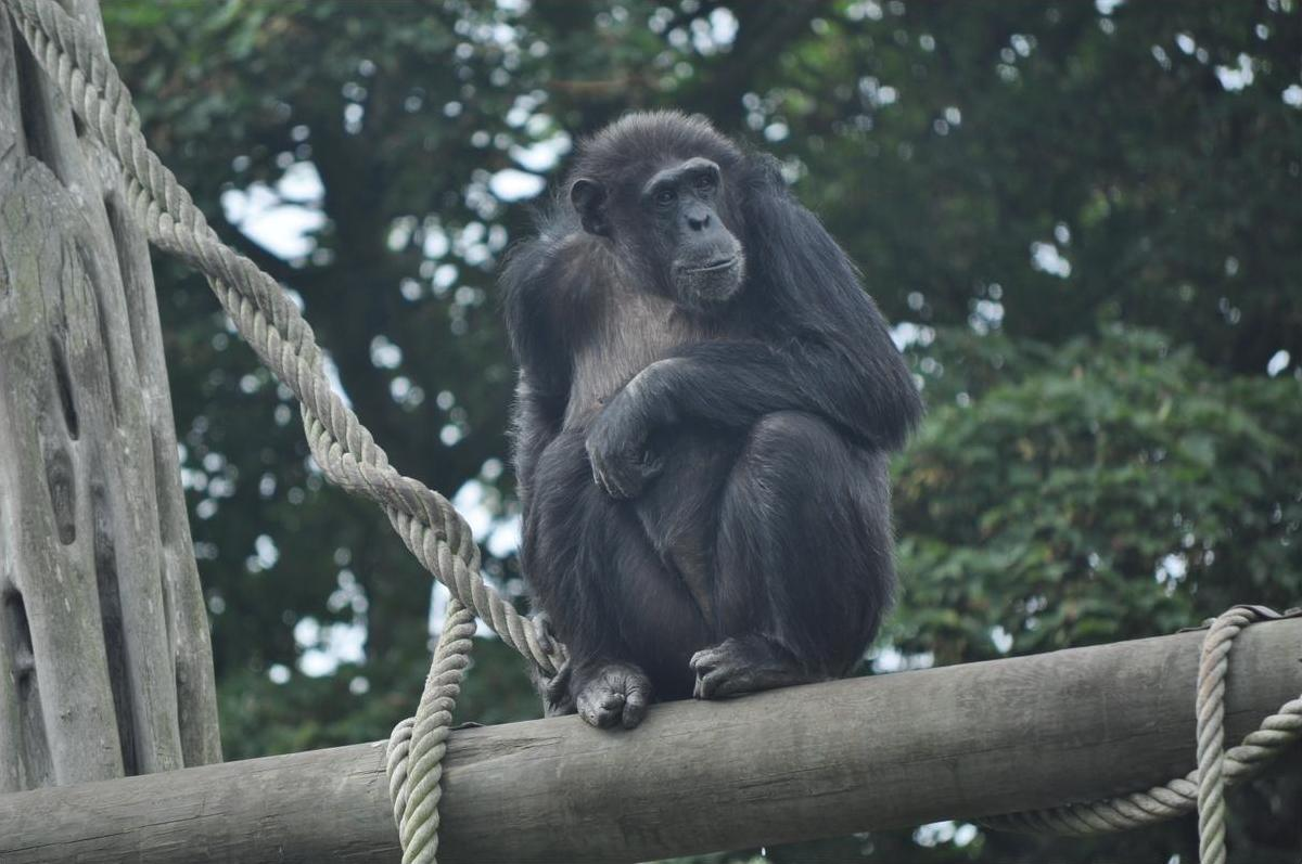 Chimp